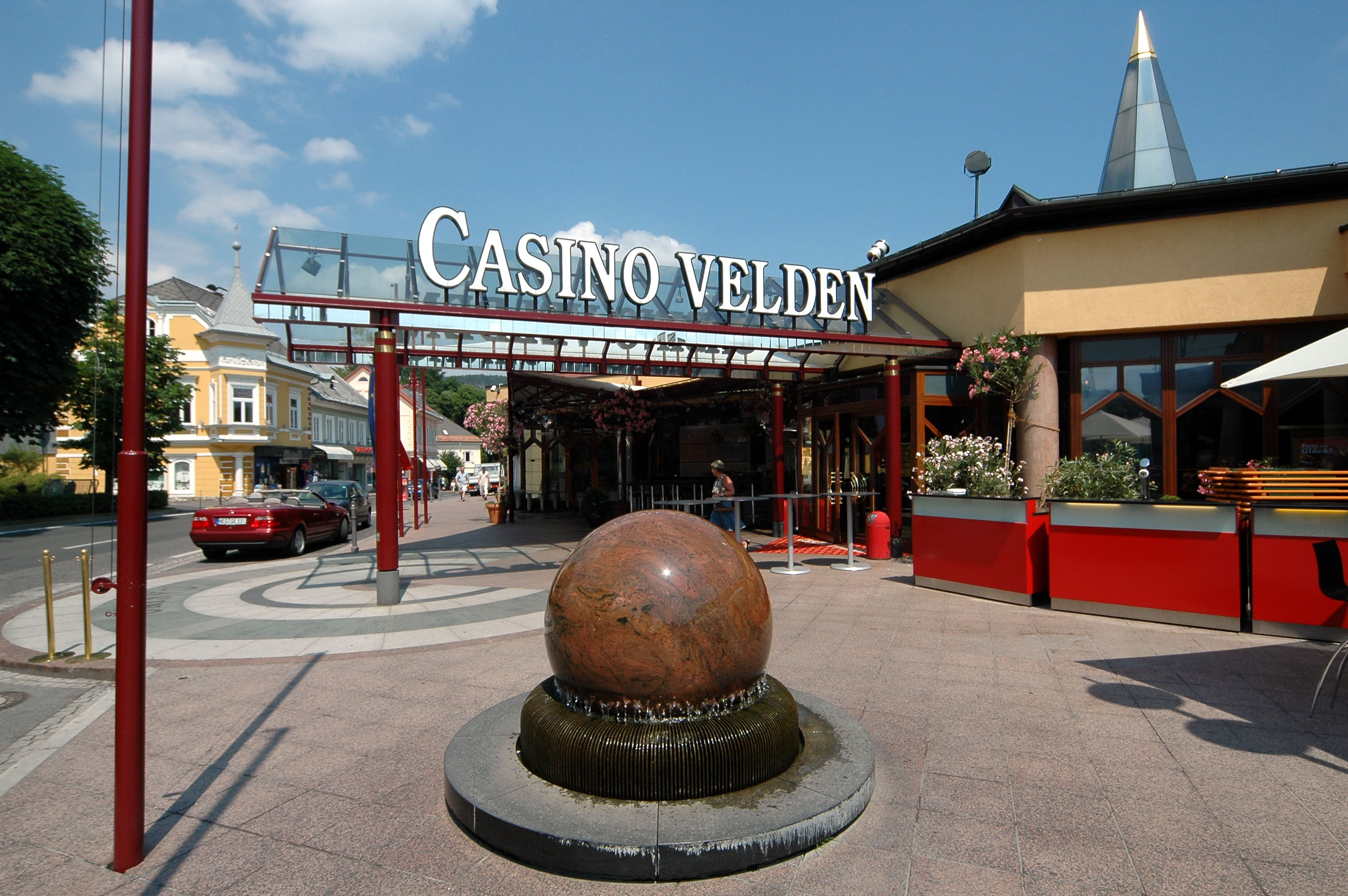 Casino Velden on Am Corso #17, market town Velden am Wörther See, district Villach Land, Carinthia, Austria, EU